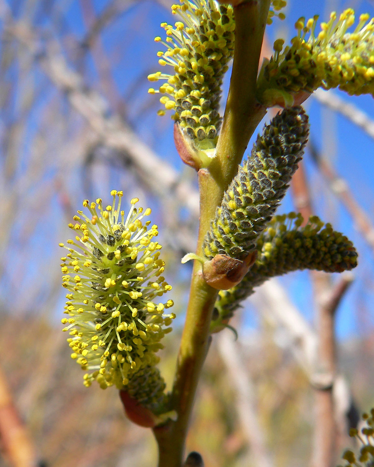 Salix lasiolepis at Harris Springs, lower Kyle Canyon, Spring Mountains, southern Nevada